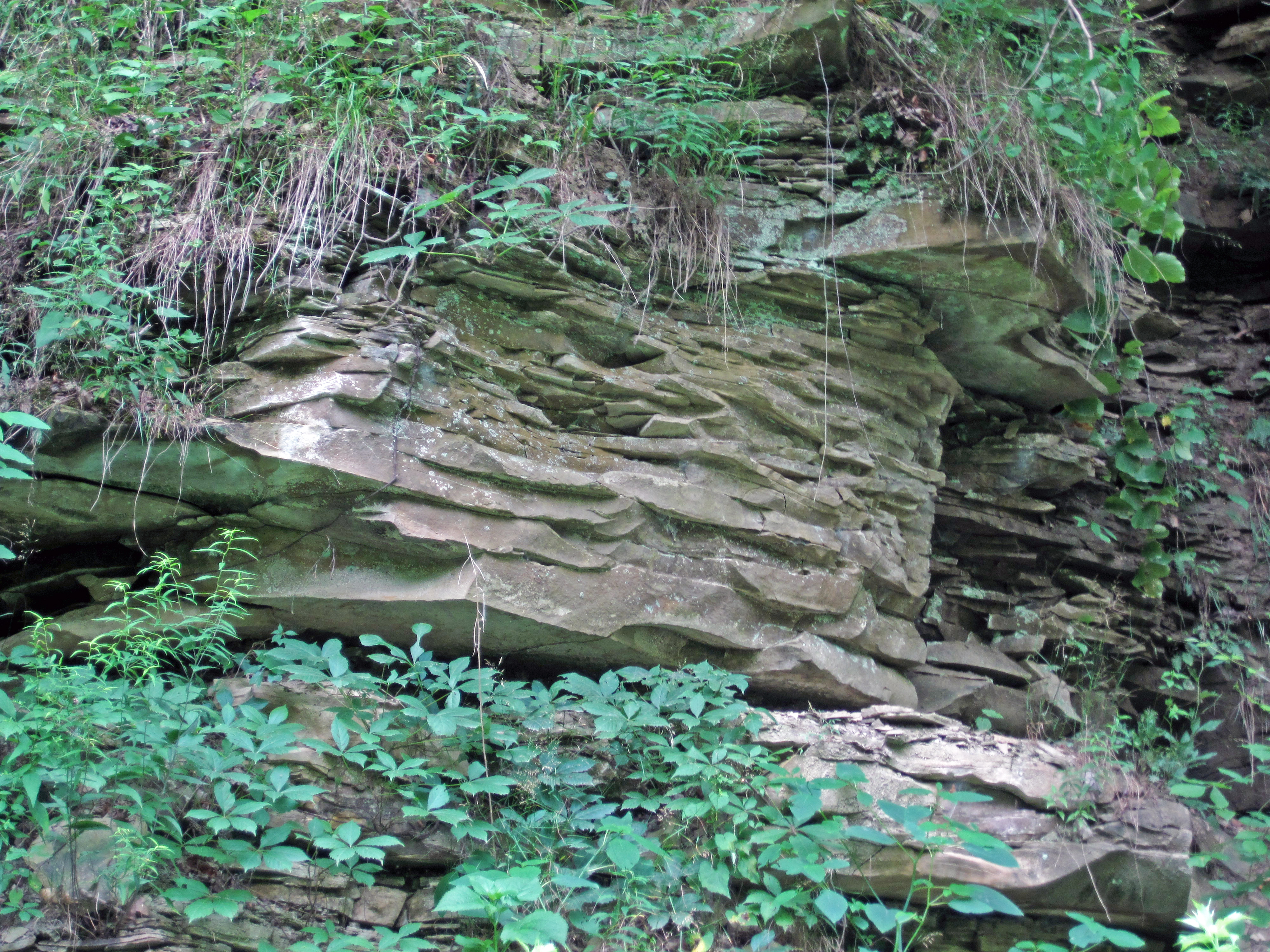 Sandstones in the Mississippian of Ohio, USA. This is a creek cut near an old sandstone quarry in Reynoldsburg, Ohio. The rocks are part of the Cuyahoga Formation (Lower Mississippian) and have been interpreted as the Buena Vista Member (see Willis, 1996). The exposed sections are dominated by quartzose sandstones, but thin intervals of mudshale and siltstone are also present. Fossils are scarce - I only observed one slab with convex hyporelief vermiform trace fossils. Willis (1996) found seven ichnogenera, plus body fossils of productid brachiopods, bryozoans, crinoids, and blastoids. Stratigraphy: Buena Vista Member, lower Cuyahoga Formation, Kinderhookian Stage, lower Lower Mississippian Locality: Pine Quarry Park, Reynoldsburg, eastern Franklin County, central Ohio, USA (vicinity of 39° 57' 46.64" North latitude, 82° 47' 12.90" West longitude) Reference cited: Willis (1996) - Trace and Body Fossils from the Cuyahoga Formation (Mississippian), Reynoldsburg, Ohio. B.S. thesis. Ohio State University, Columbus, Ohio, USA. 10+(10) pp.